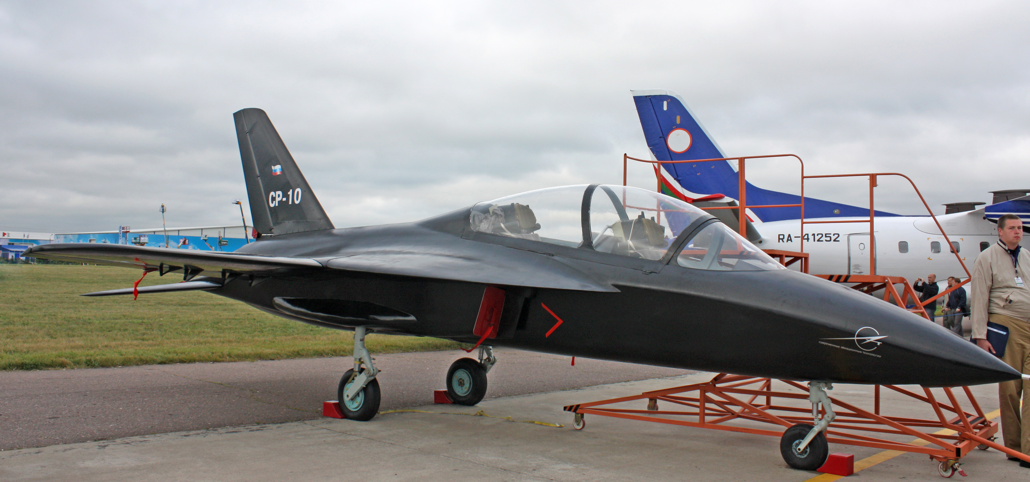 SR-10 (Design office «Modern Aviation Technologies») (the international aerospace salon MAKS-2009)